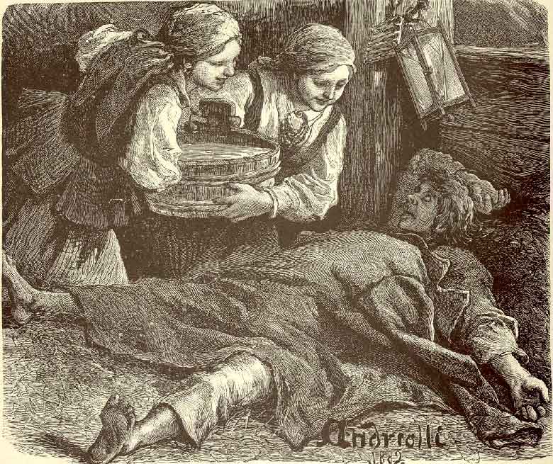 Michał Elwiro Andriolli, Dyngus Day